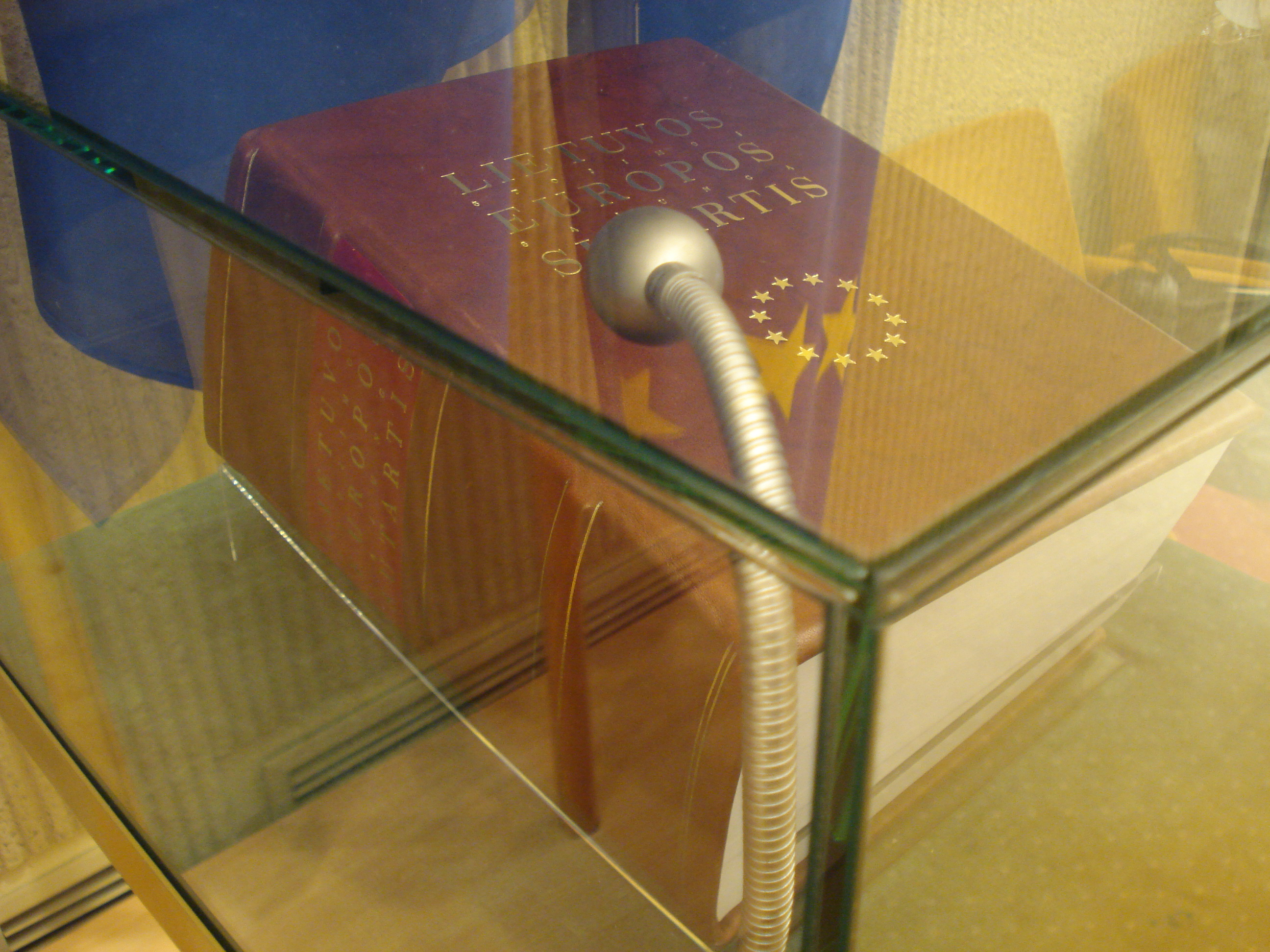 The Treaty of Accession the Republic of Lithuania to the European Union